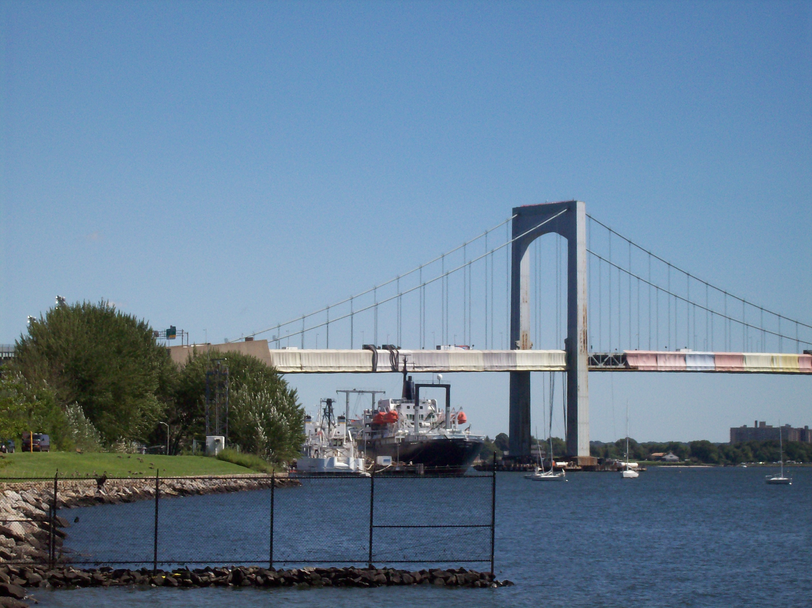 The Throgs Neck Bridge with the T.S. Empire State VI next to it.